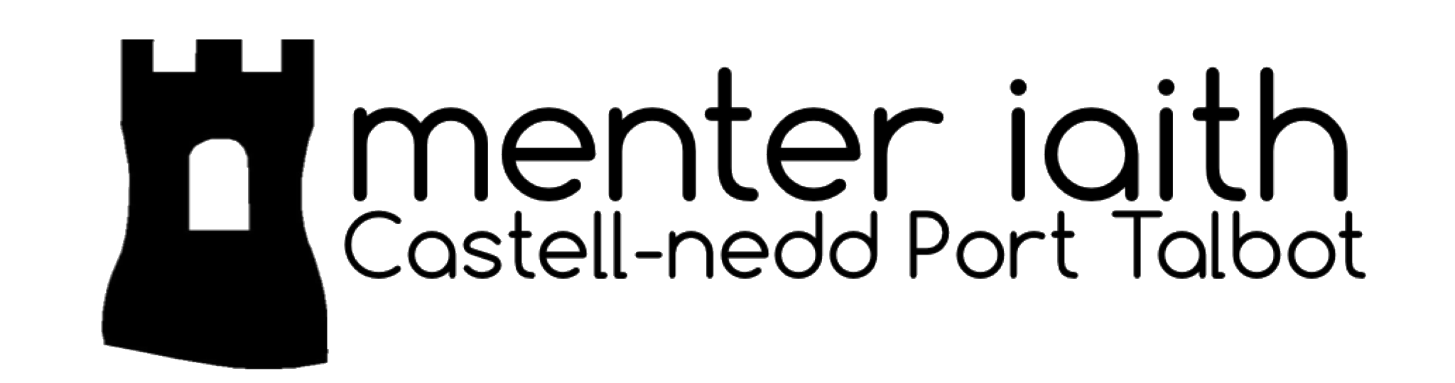 Menter Iaith Castell-nedd Port Talbot Logo